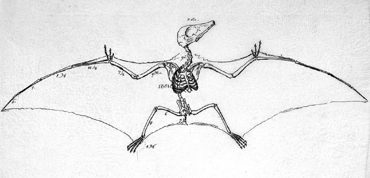 An historical reconstruction of the pterosaur Ctenochasma (syn. "Ornithocephalus brevirostris") by Th. von Soemmerring (1817).